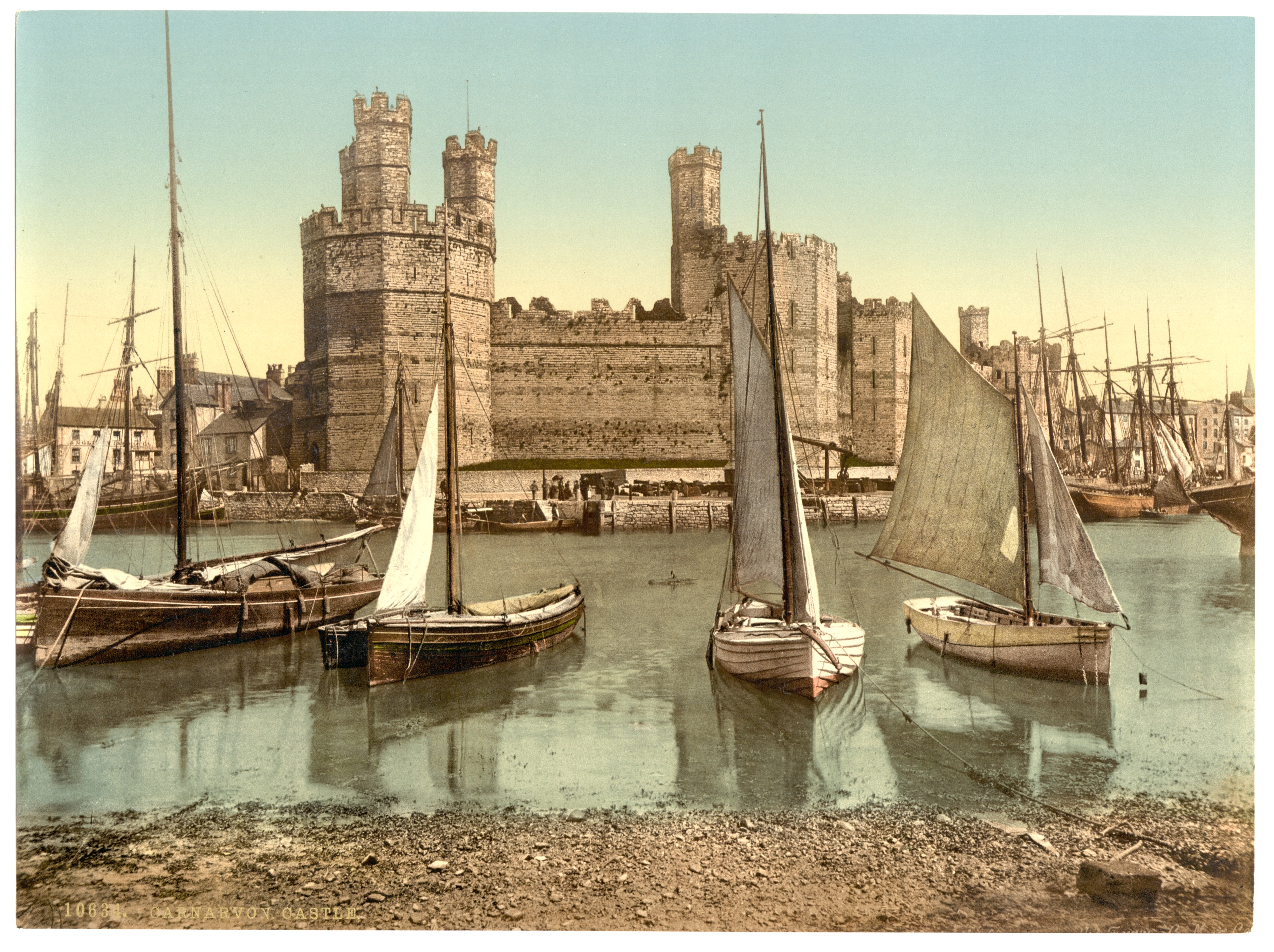 Title from the Detroit Publishing Co., catalogue J-foreign section. Detroit, Mich. : Detroit Photographic Company, 1905.; Print no. "10634".; Forms part of: Views of landscape and architecture in Wales in the Photochrom print collection.; Printed at lower left: 10634. Carnarvon Castle.; More information about the Photochrom Print Collection is available at